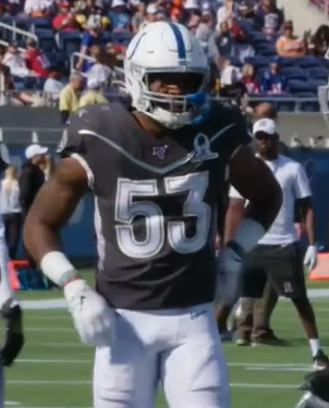 Darius Leonard in 2020